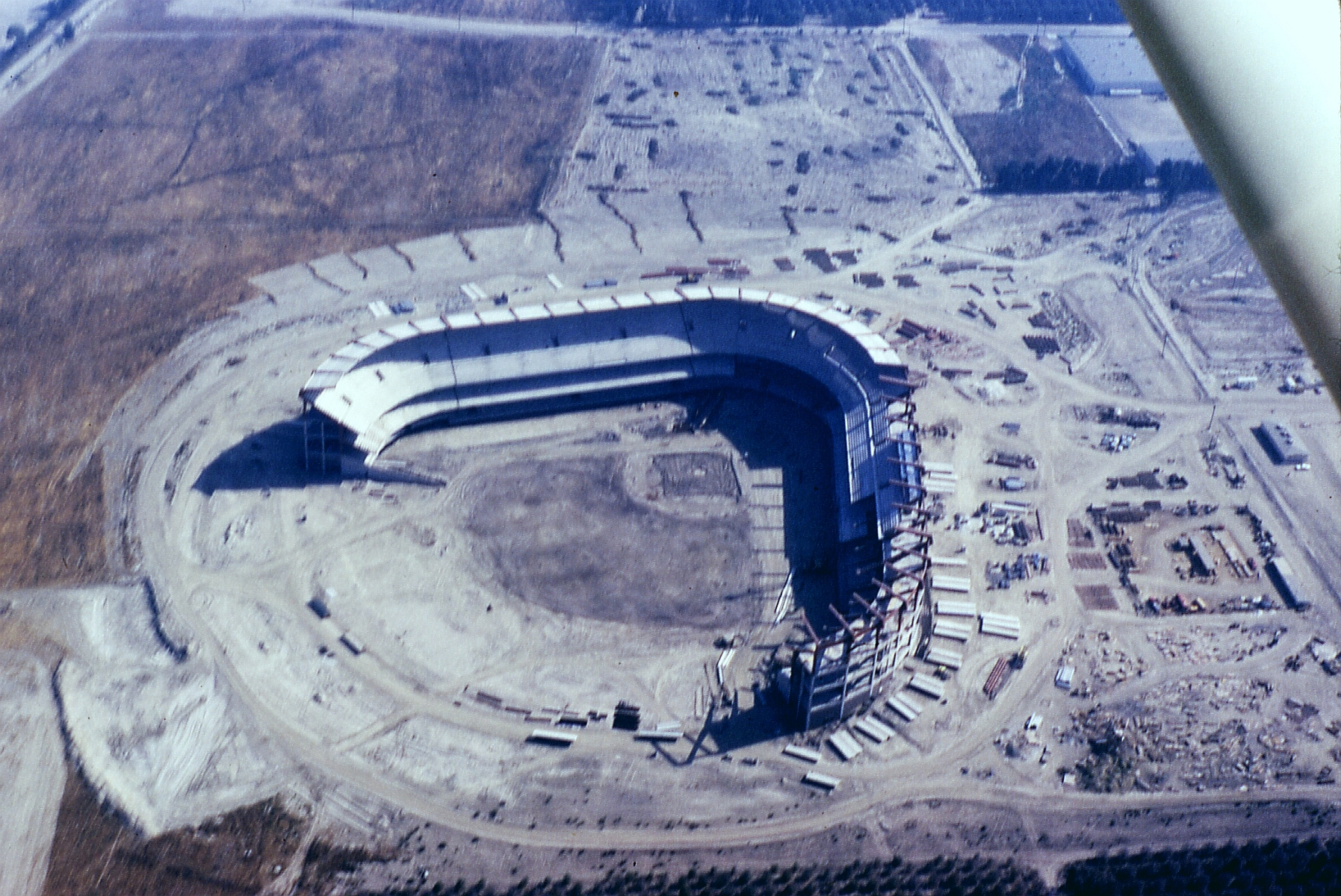 Anaheim Angel Stadium under construction. Exakta VX SLR 35mm camera, with Ektachrome slide film